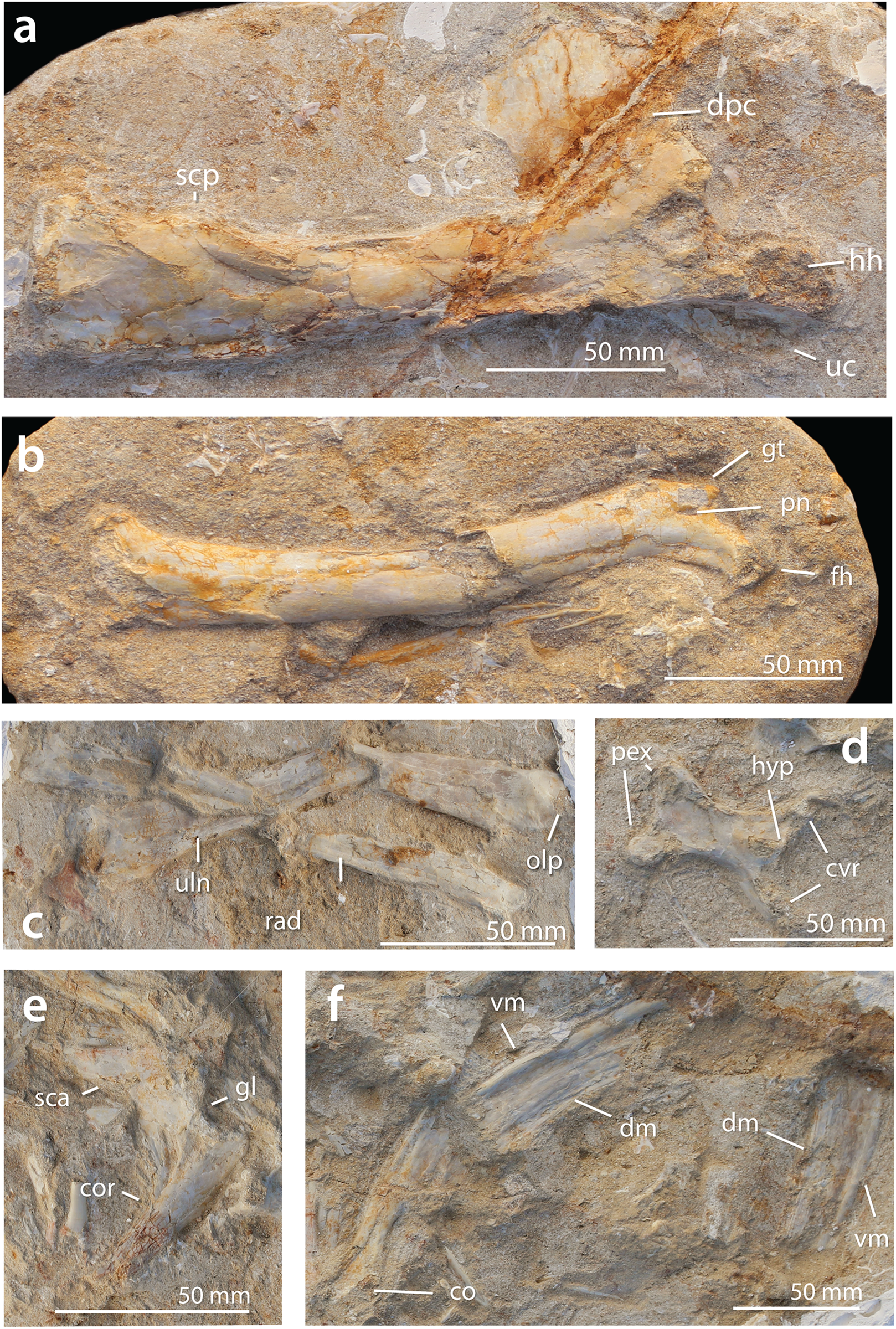 FSAC-OB 232, holotype skeleton of Barbaridactylus grandis. (A) Left humerus in anterior view, (B) right femur in anterior view, (C) right radius and ulna in posterior view, (D) cervical vertebra in ventral view, (E) left scapulocoracoid in medial view, and (F) posterior ramus of the right mandible in medial view. Abbreviations: co, coracoid; cot, cotyle of mandible; cvr, cervical ribs; dm, dorsal margin of mandible; dpc, deltopectoral crest; gl, glenoid; fh, femoral head; gt, greater trochanter; hh, humeral head; hyp, hypapophysis; olp, olecranon process; pex, postexapophysis; pn, pneumatopore; rad, radius; sca, scapula; scp, supracondylar process of the ectepicondyle; uc, ulnar crest; uln, ulna; vm, ventral margin of mandible.